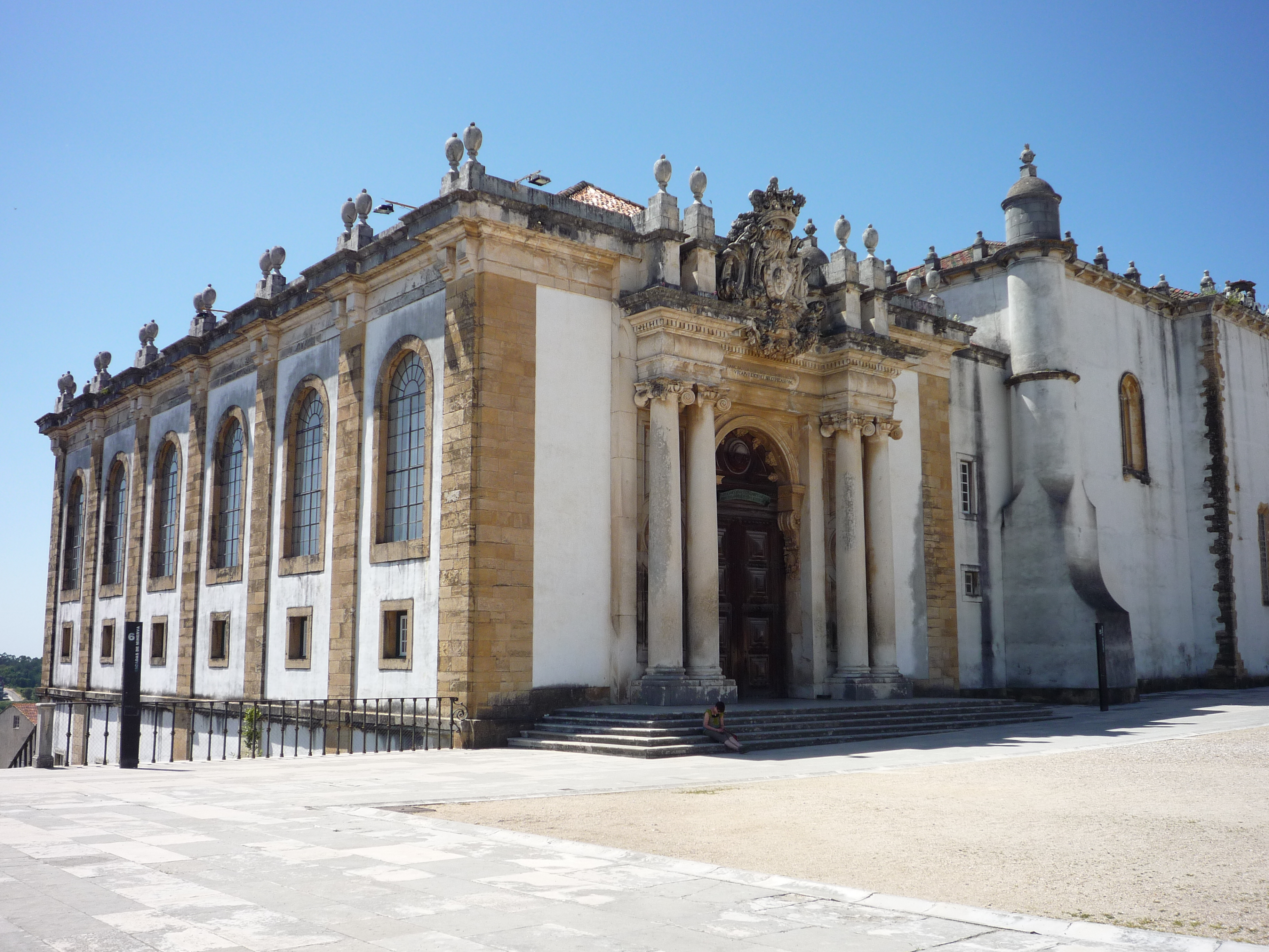 Biblioteca Joanina at the University Square